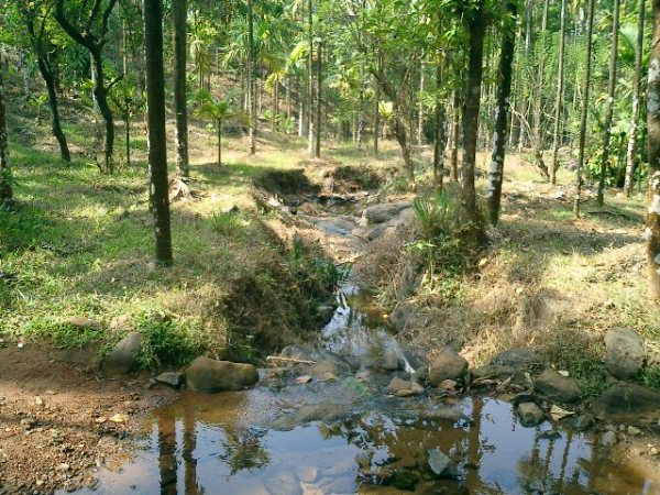 Water sources at Kakkadampoyil